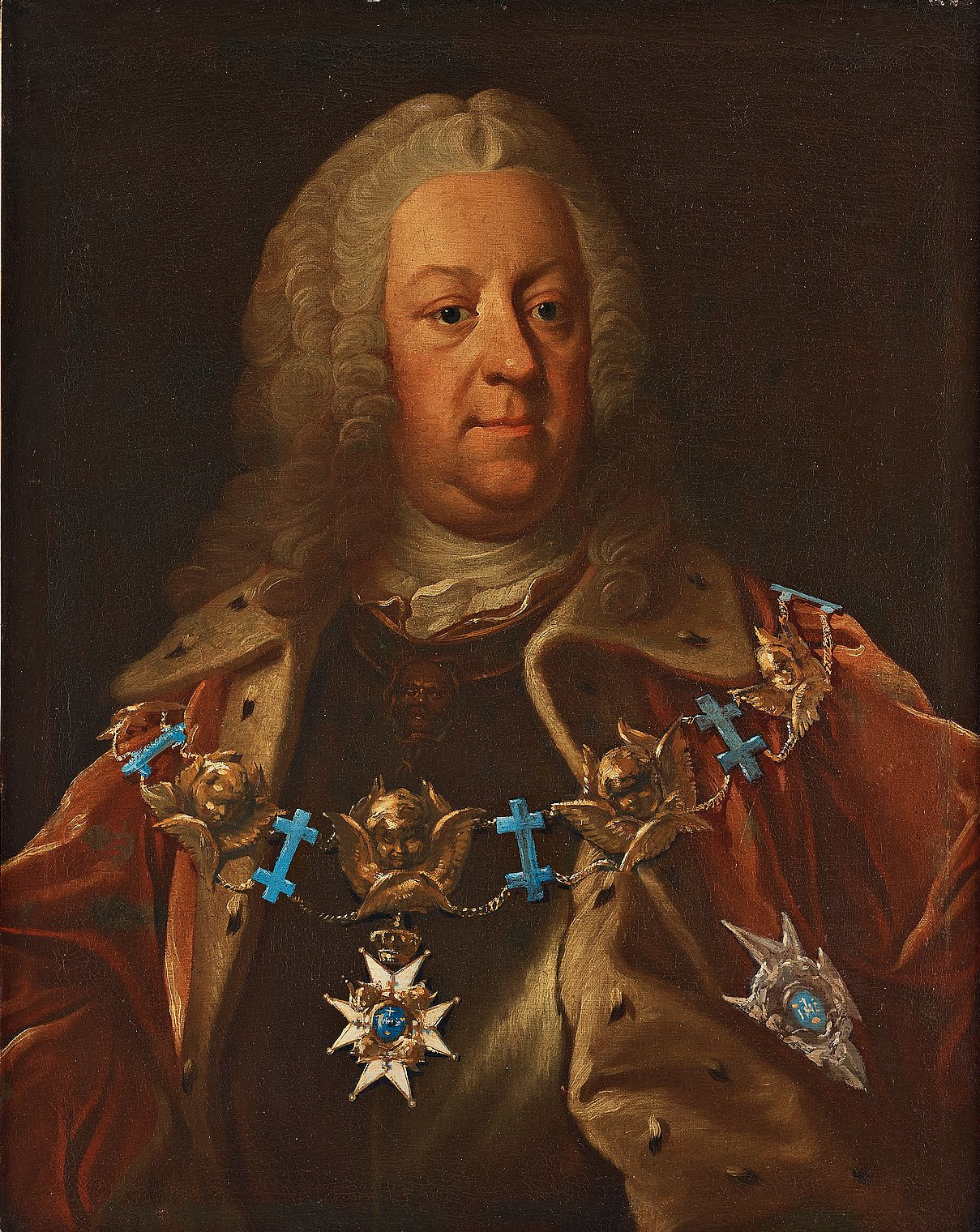 Count Arvid Posse (1689-1754), Member of the Privy Council of Sweden